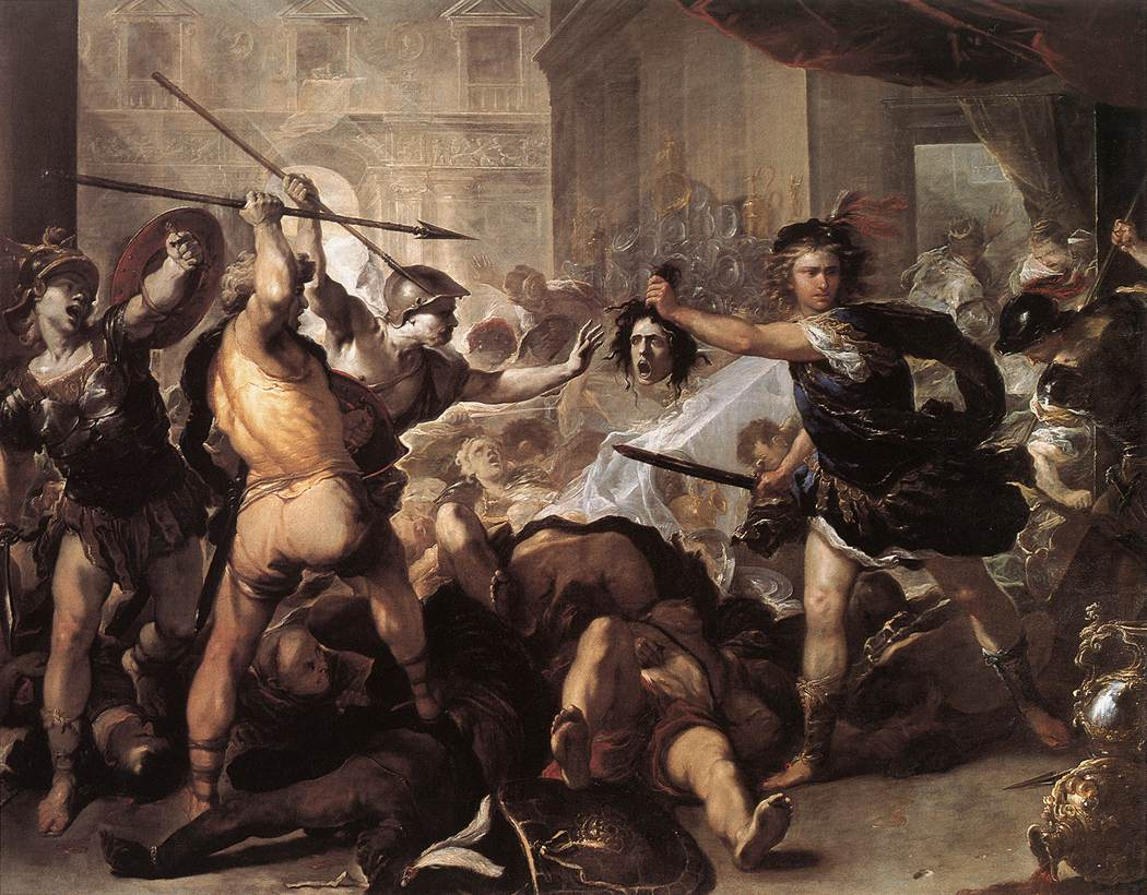 Perseus turns Phineus and his followers to stone by the sight of Medusa's head during a quarrel over Andromeda's wedding.